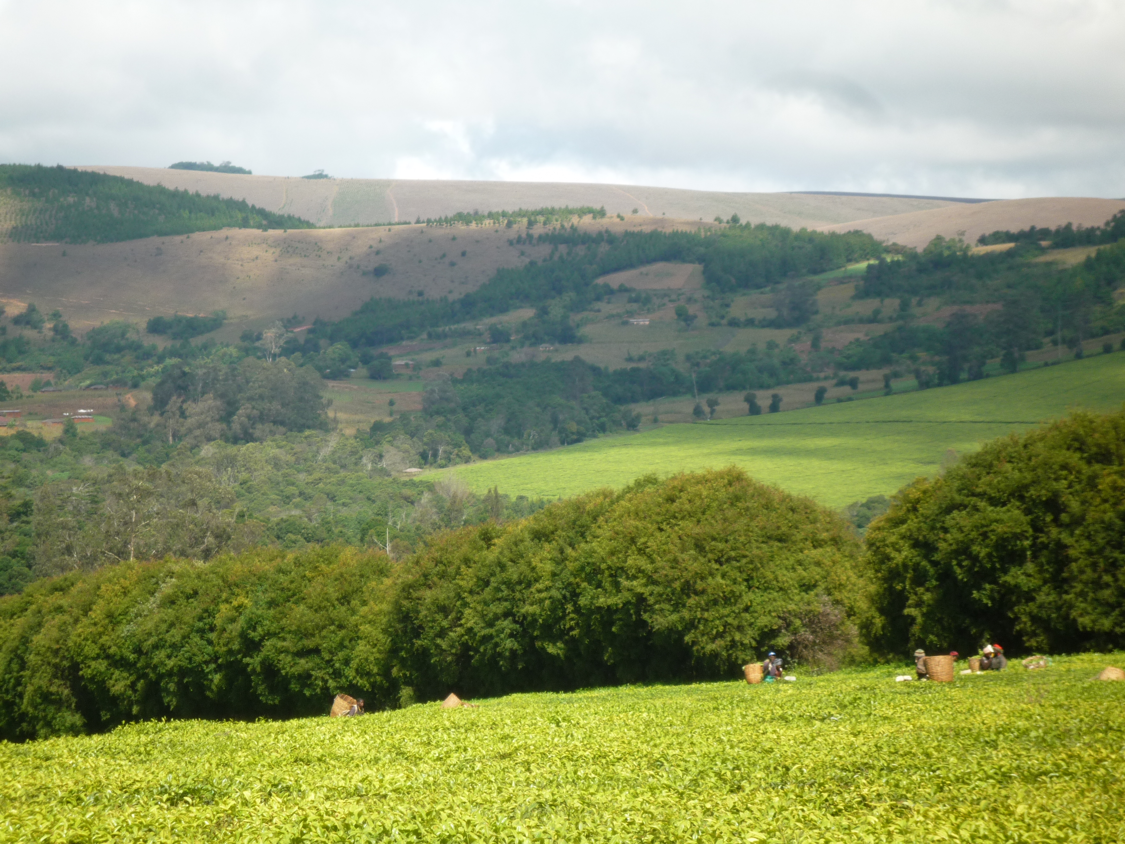 In the Livingstone Highlands in Southern Tanzania (2000 m) there are several tea estates (2014)